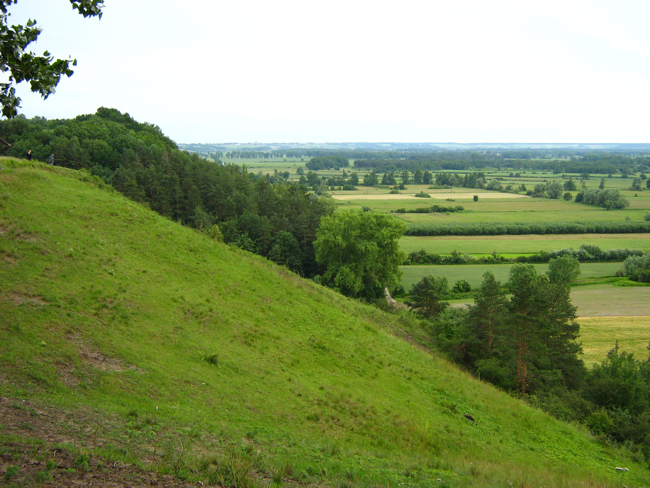 Zbocza Płutowskie Nature Reserve (Plutowo Cliff). Vistula valley. Southward view.